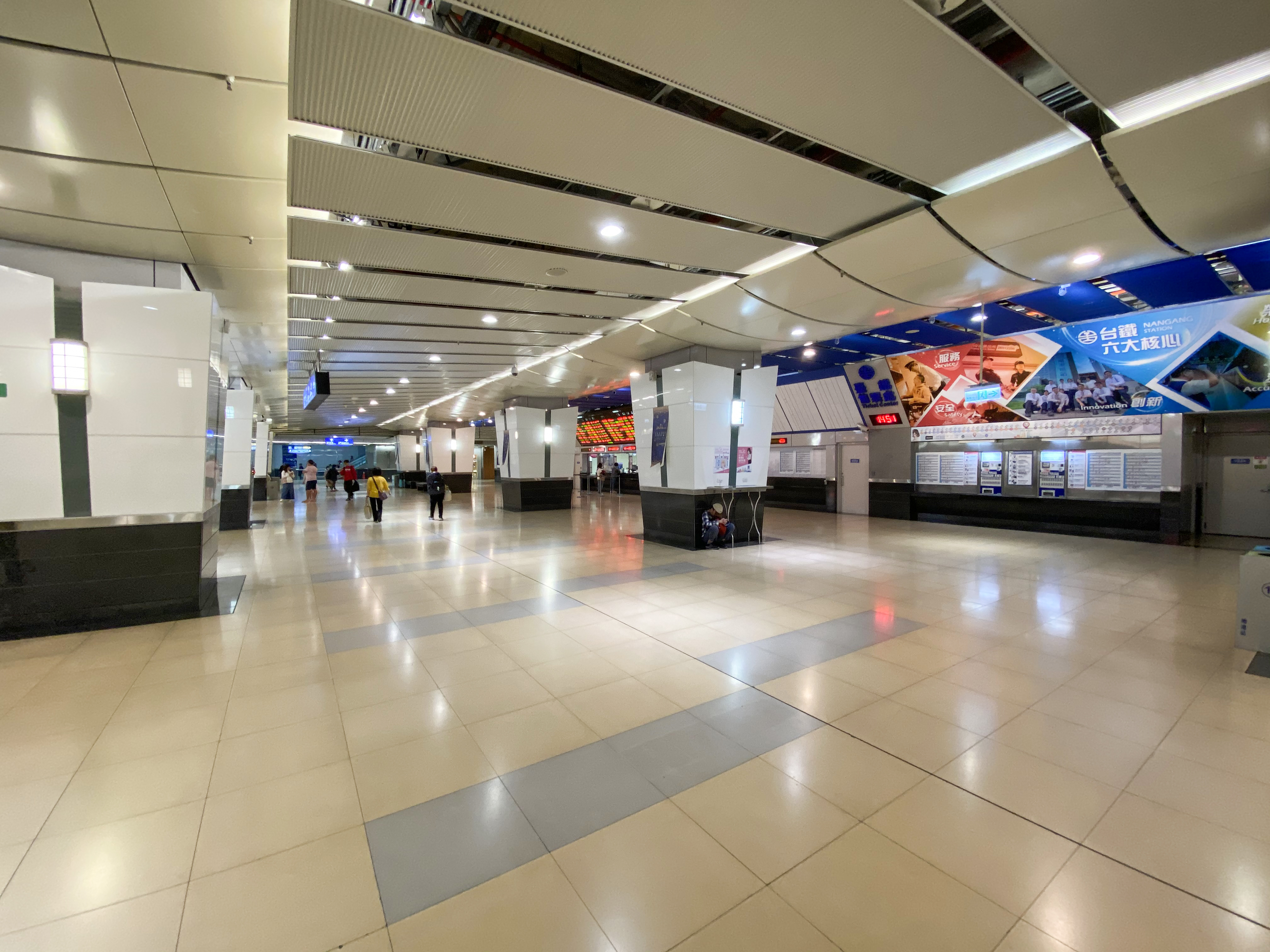 Nangang Station TRA Concourse